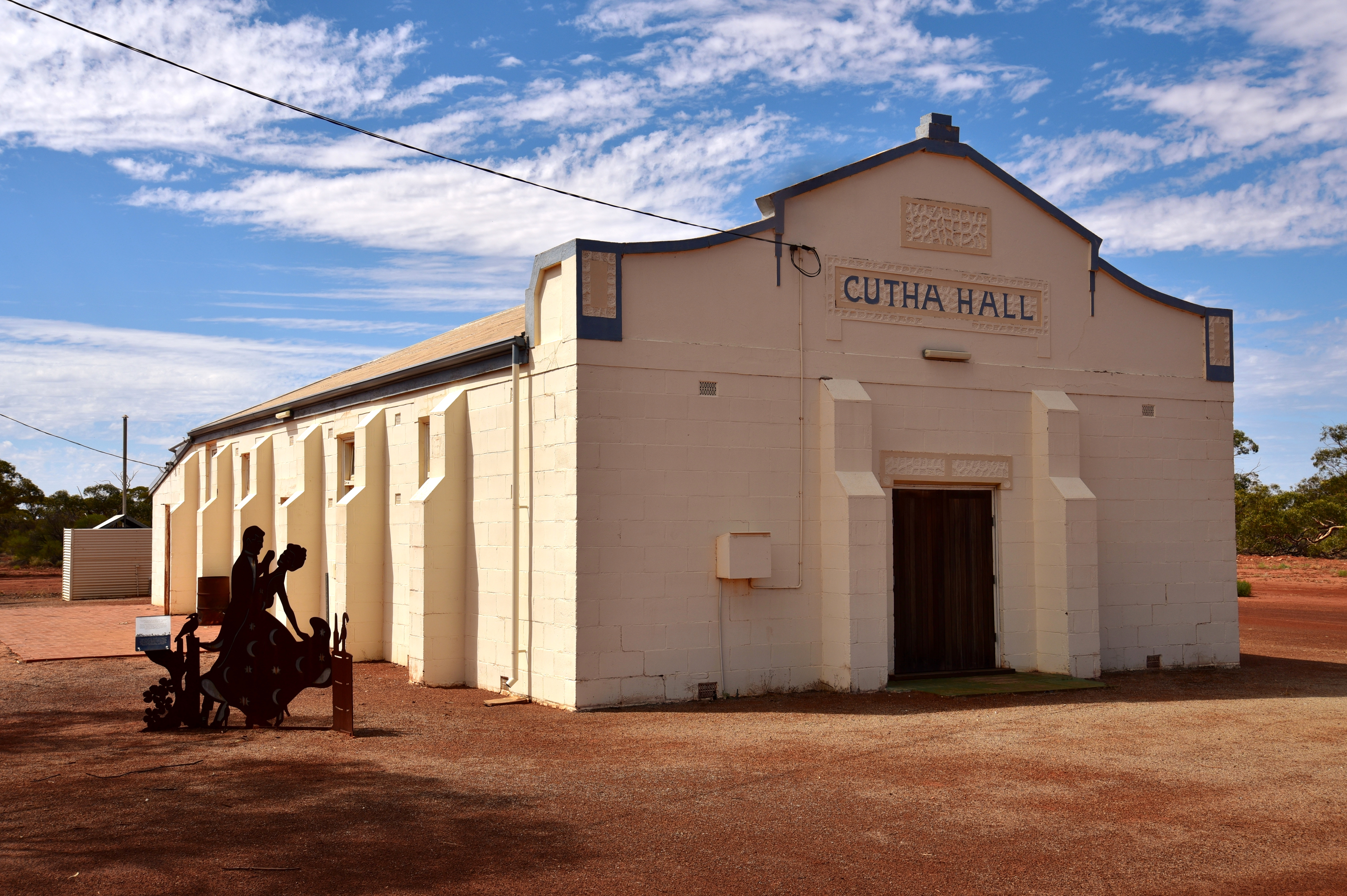 View of Gutha Hall, Gutha, Western Australia